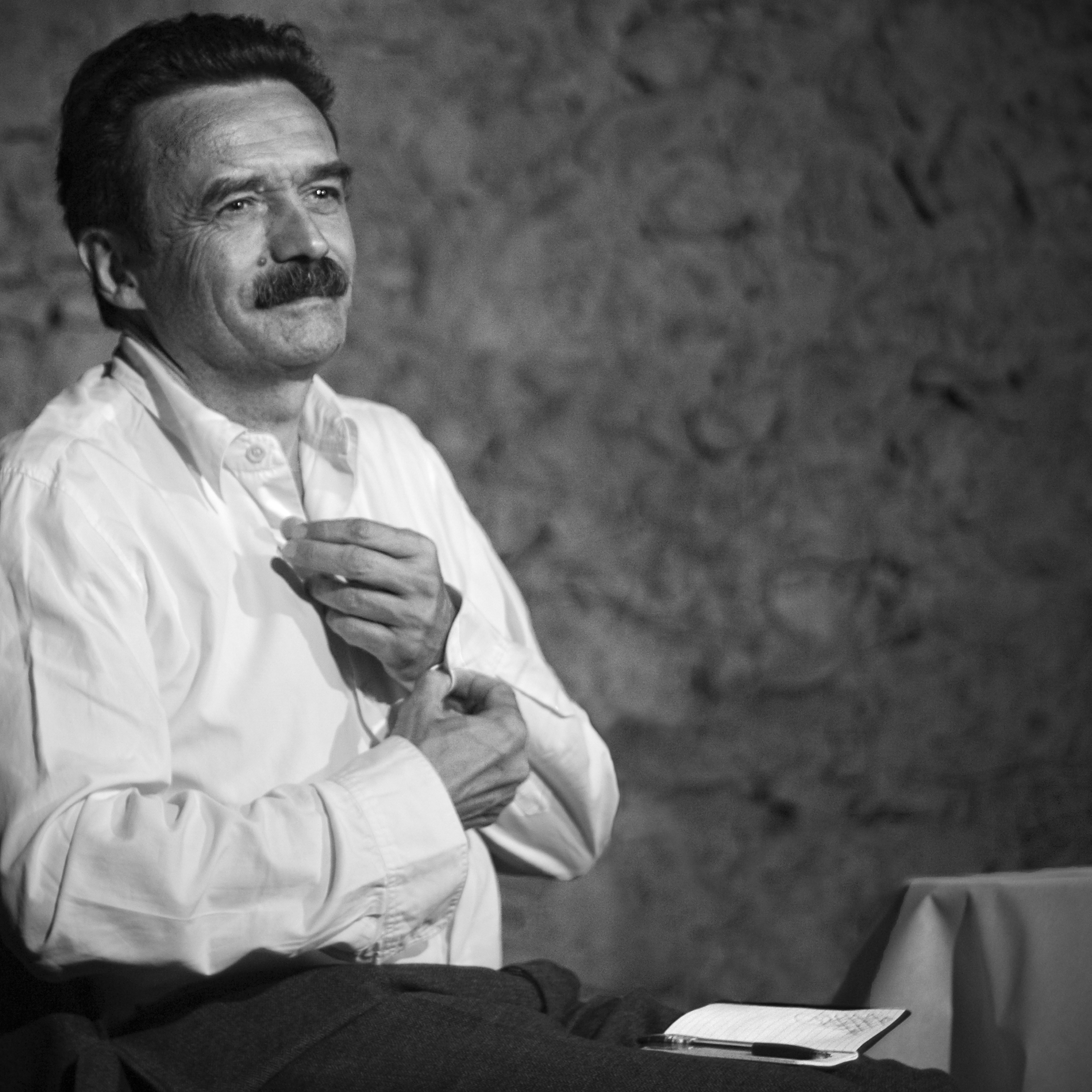 Edwy Plenel, during a meeting in Montpellier.